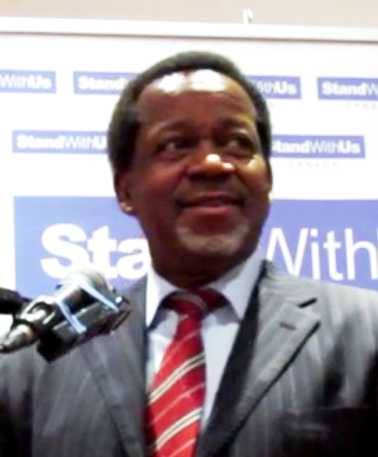 Kenneth Meshoe, President of the African Christian Democratic Party, South Africa